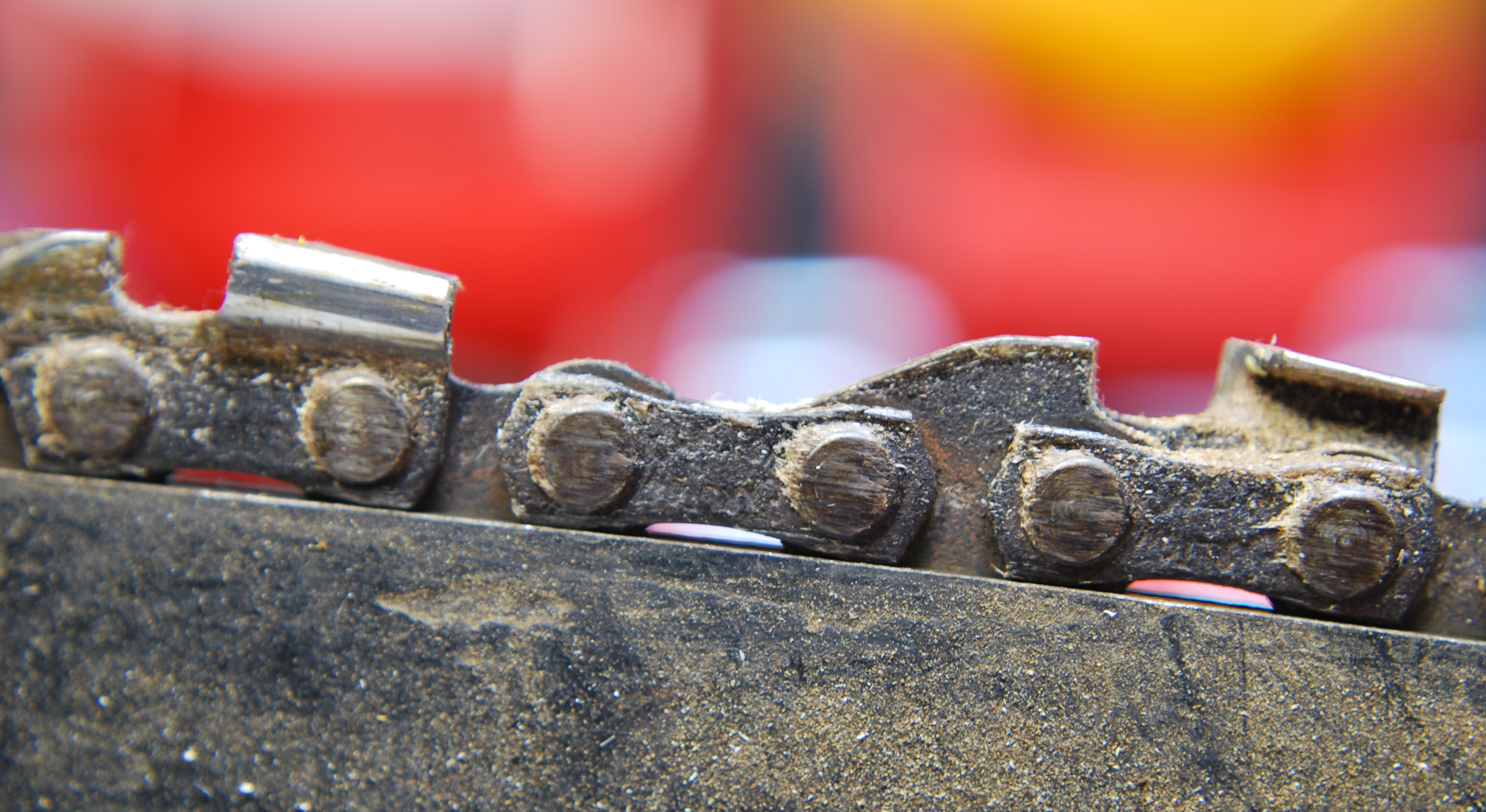 A close up of a chainsaw blade.